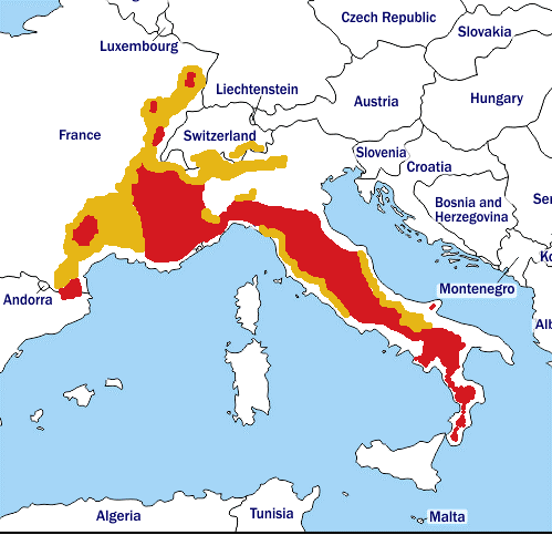 "Canis lupus italicus" range (2019)